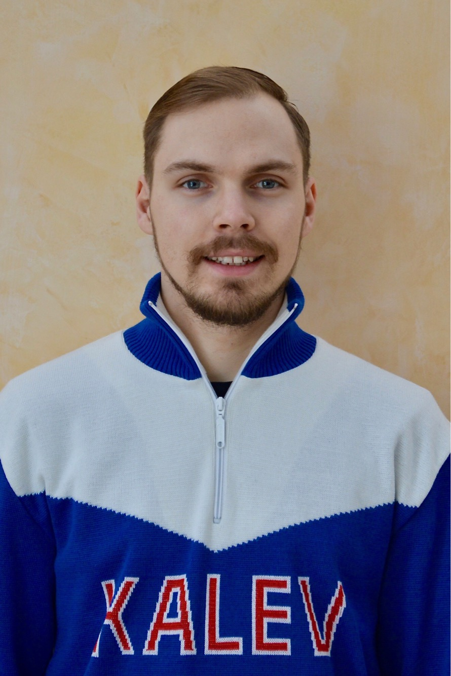 Rasmus Haugasmägis portrait photo